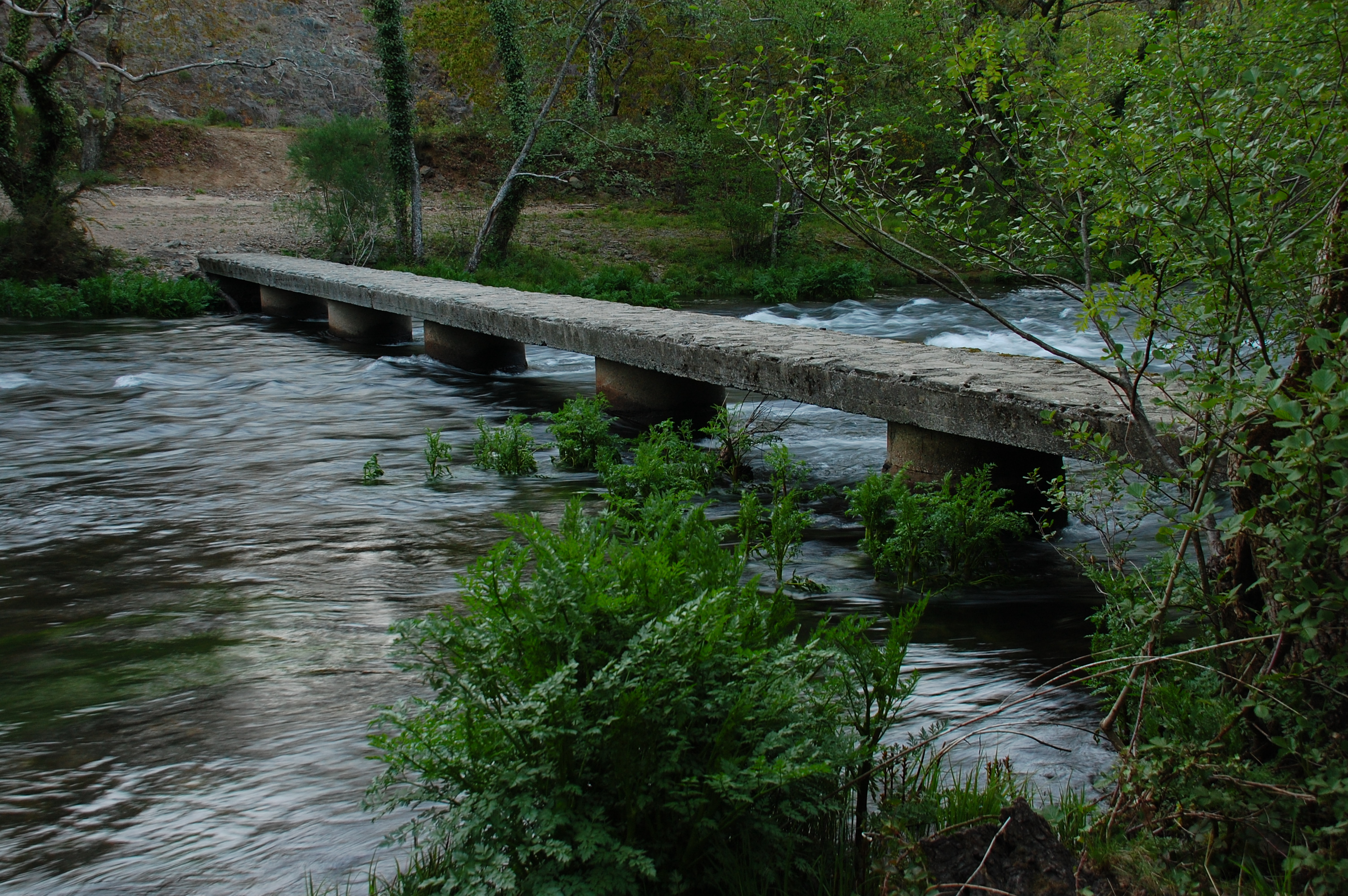 A Senra footbridge crossing the Arnego River, in the parish of Toiriz, municipality of Vila de Cruces, Pontevedra province, Galicia, Spain, in the Sobreiral do Arnego, a Site of Community Importance. This is a photography of a Special Area of Conservation in Spain with the ID: ES1140015. Natura2000 entry, EEA entry